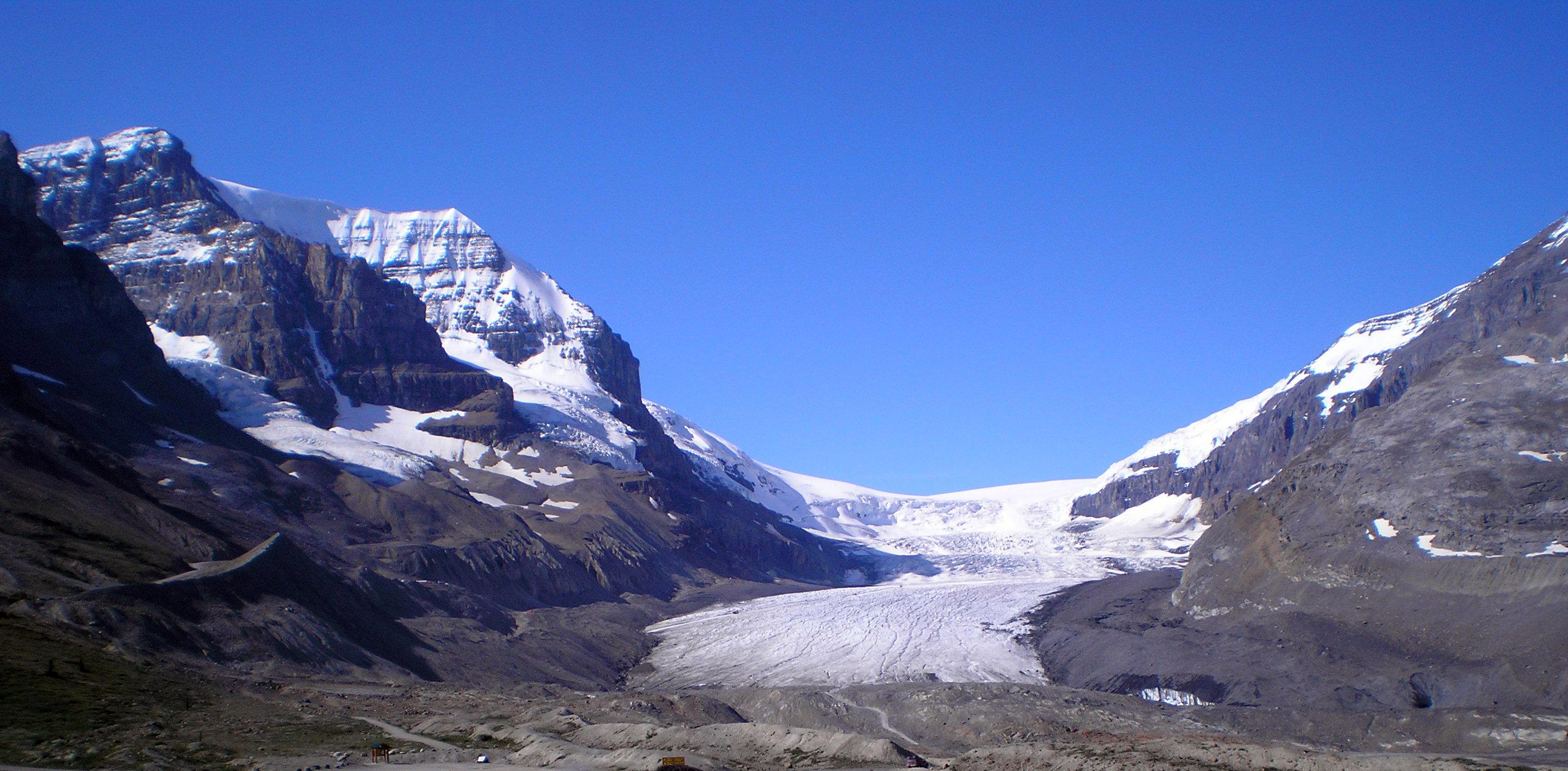 Athabasca glacier and Mount Andromeda in Jasper National Park, Alberta, Canada.